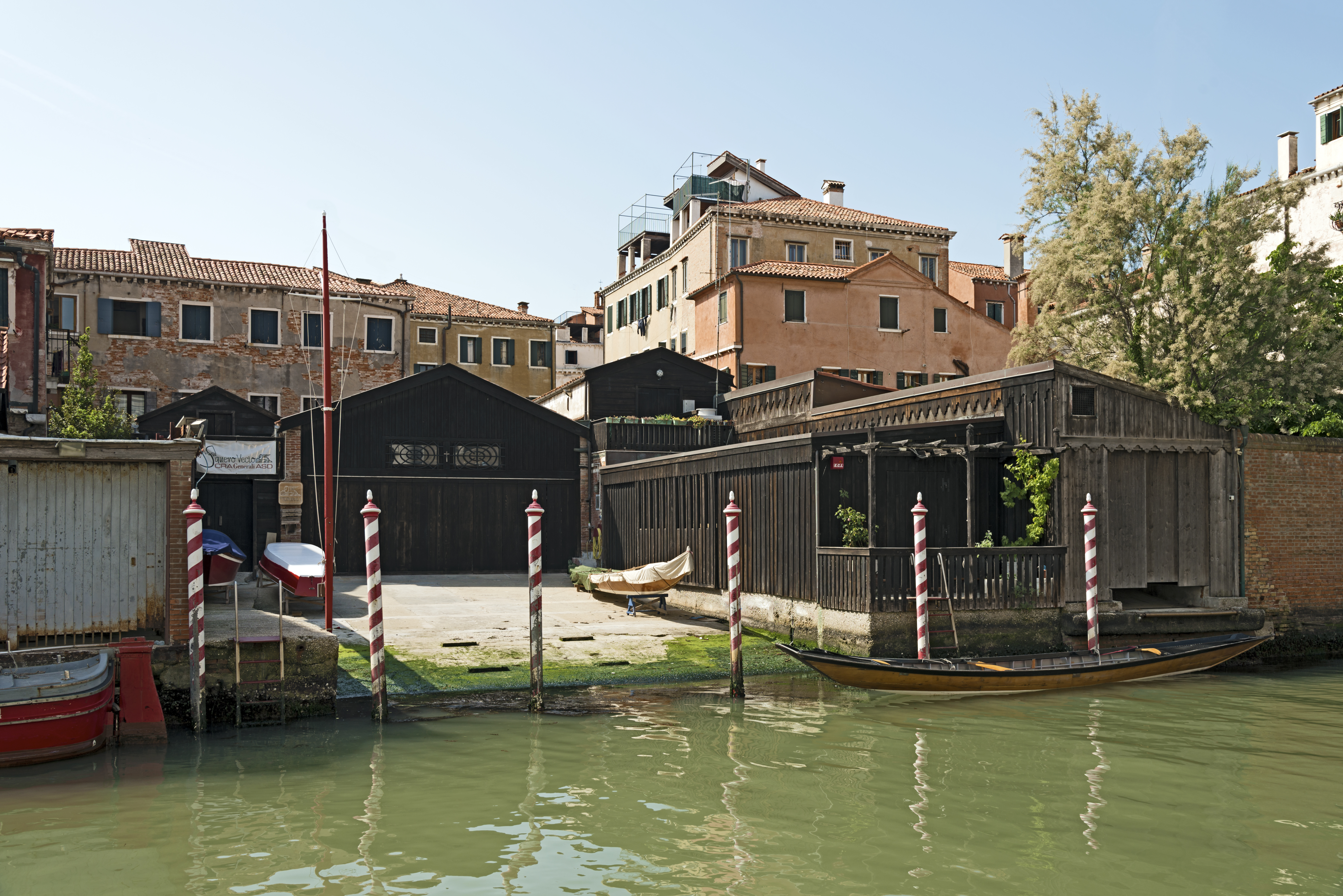 Rio dei Mendicanti to Venice. The rio and the Squero Vecio, now property of Assicurazioni Generali, seen from Fondamenta dei Mendicanti.